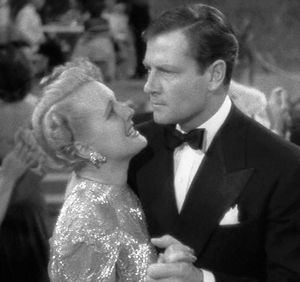 Screenshot from the trailer for The Palm Beach Story (1942) depicting Mary Astor and Joel McCrea.